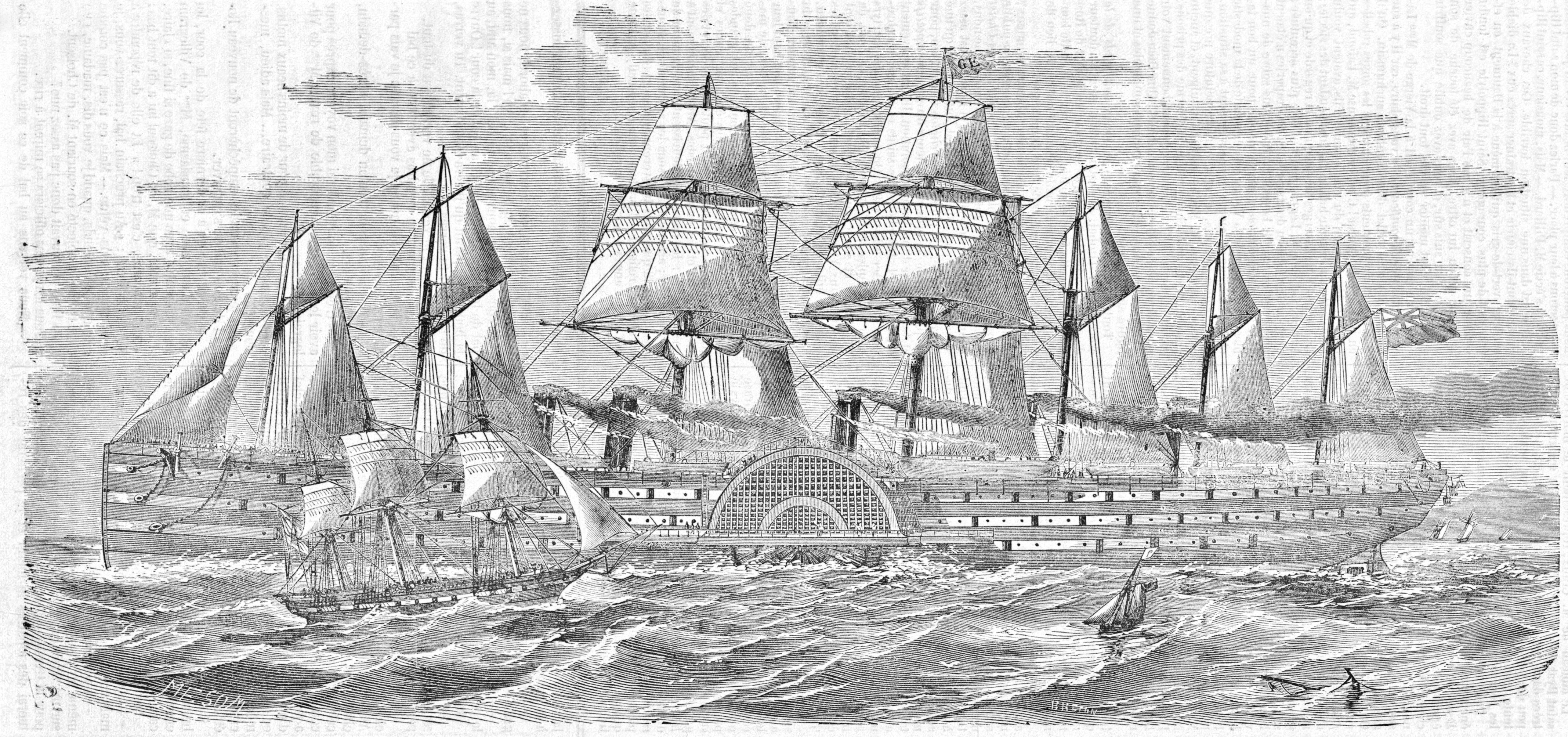 Le « Great-Eastern »